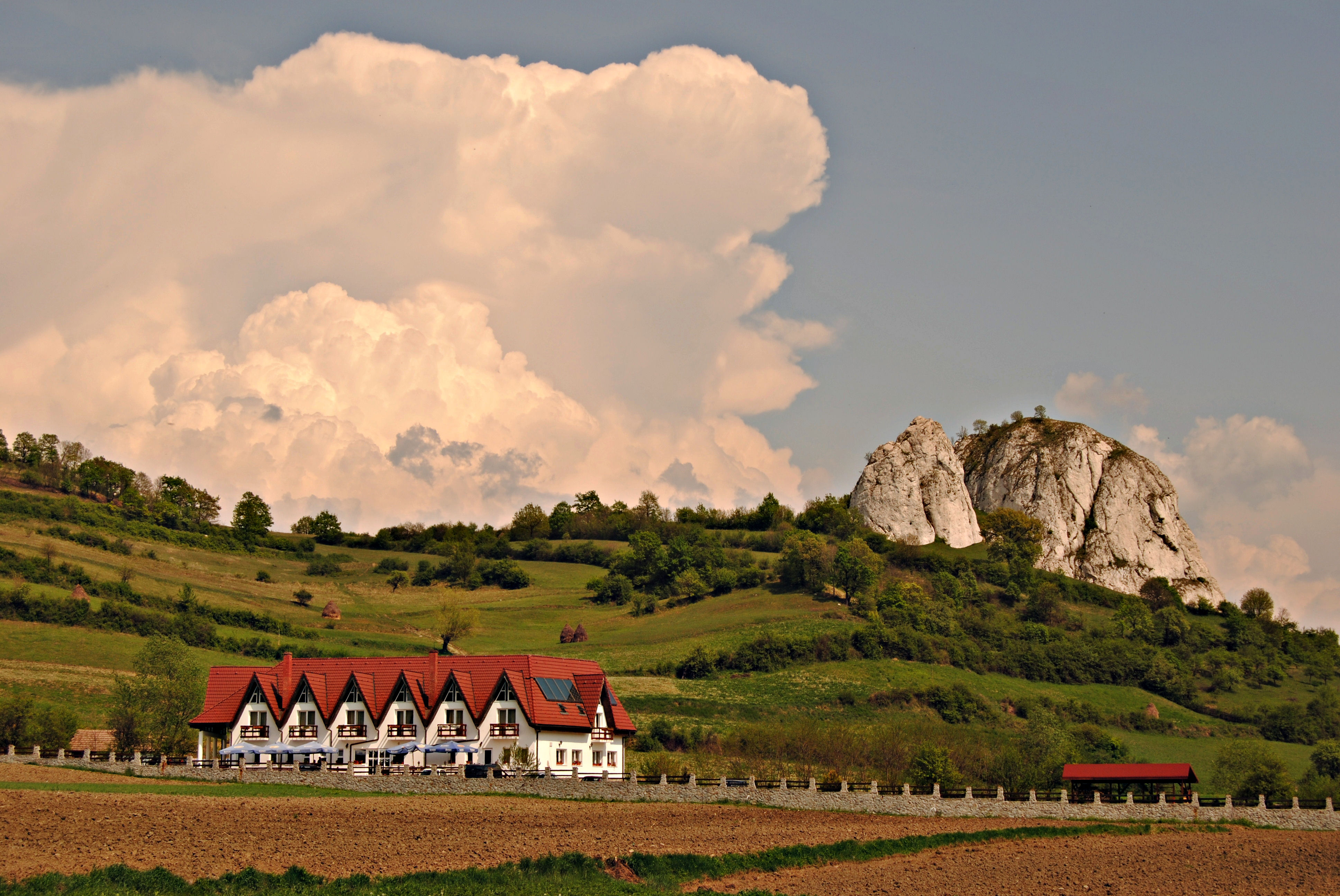 Ampoiţa